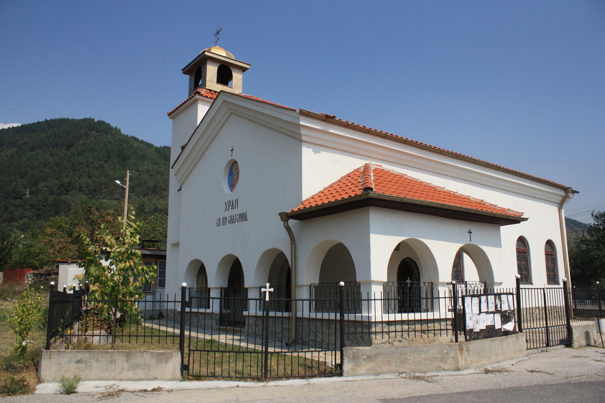 Saint Ekaterina Church in Tsarkvishte, Bulgaria